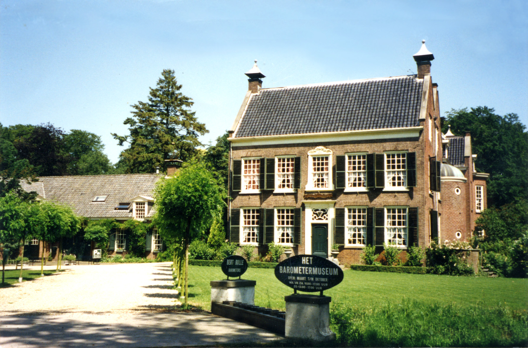 The 18th century country house ‘Rustenhoven’ at Maartensdijk, the Netherlands. Former residence of the Barometer Museum.